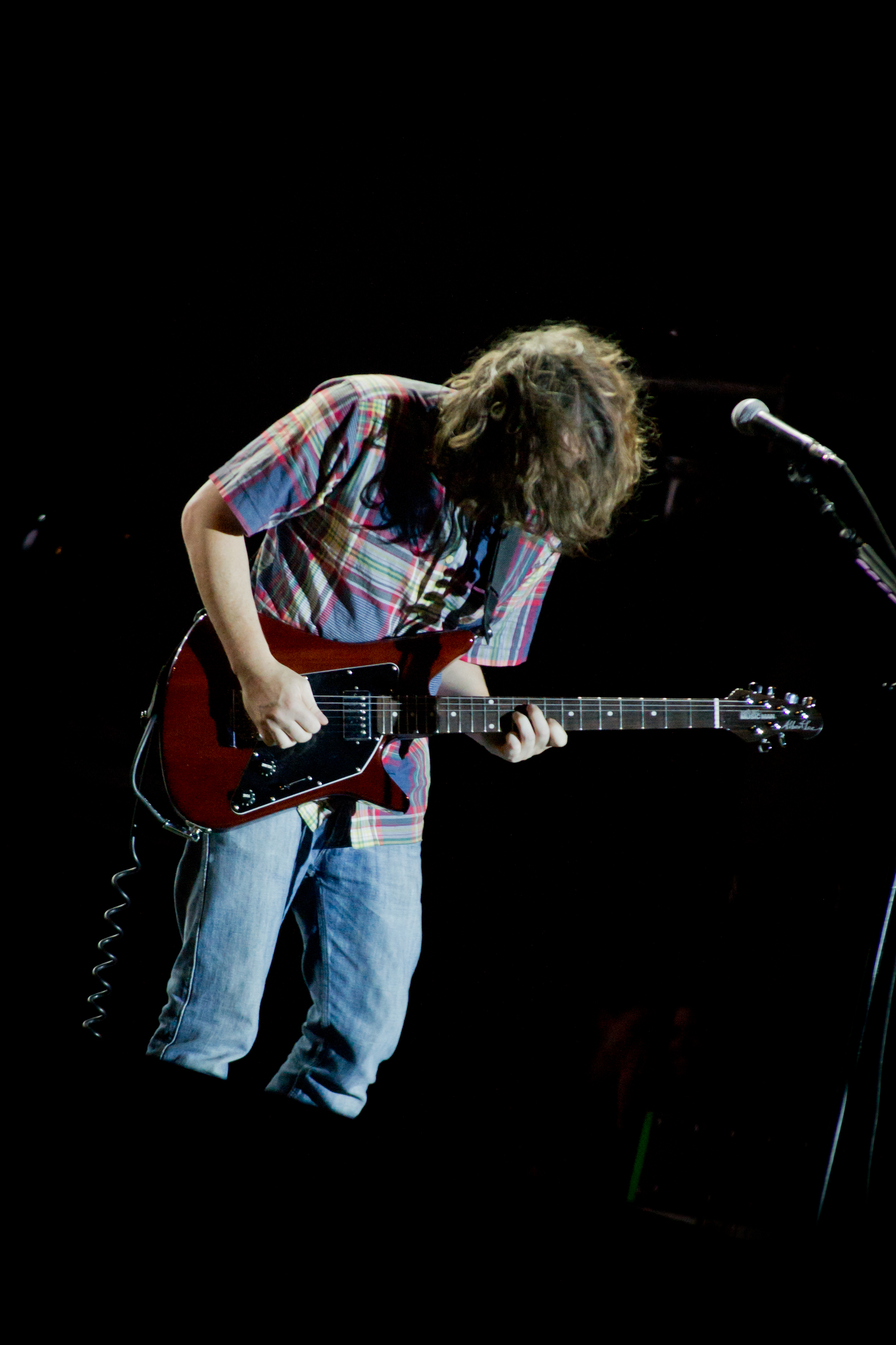 Incubus in Rock in Rio Madrid 2012.